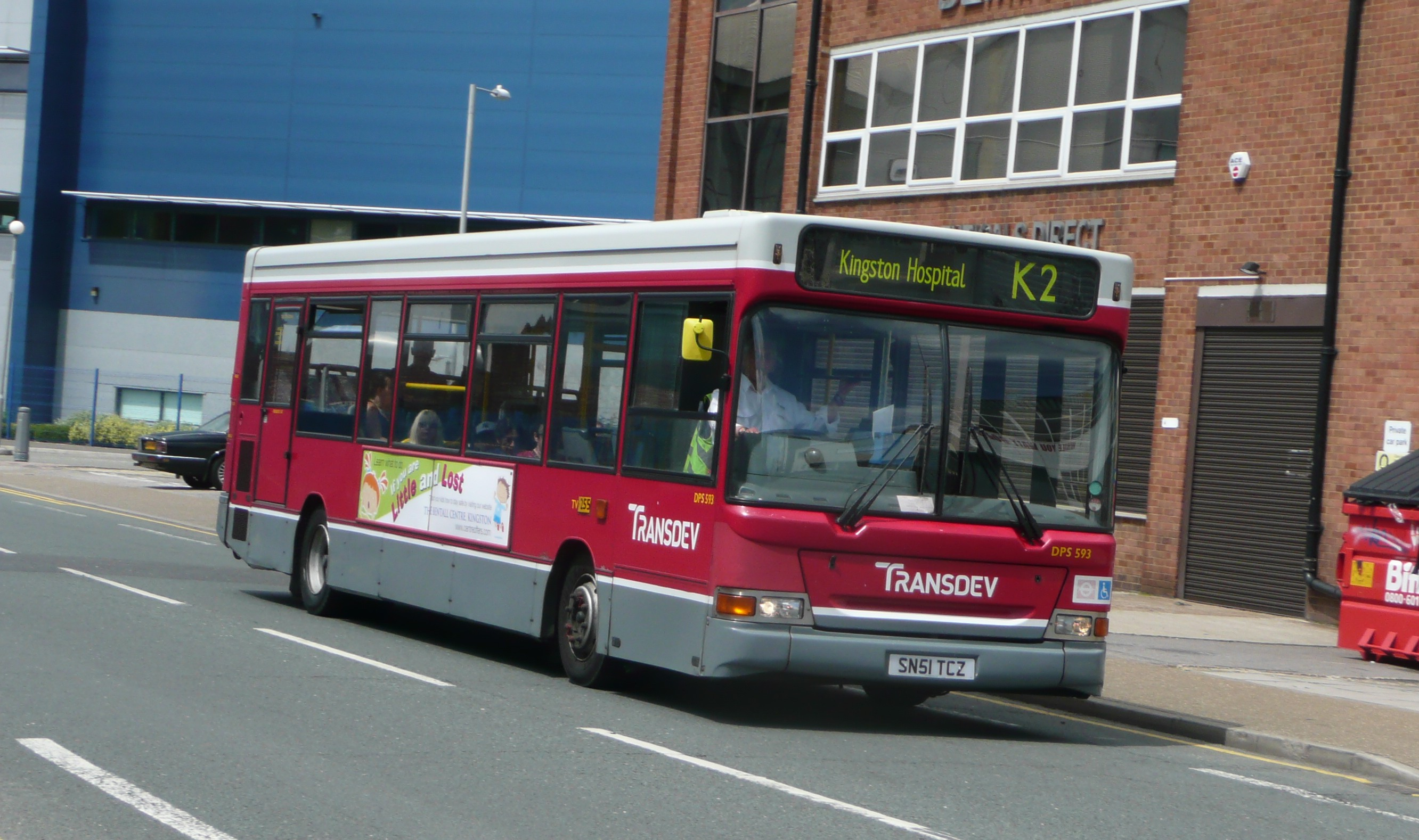 Transdev London DPS593 (SN51 TCZ), a Dennis Dart SLF/Plaxton Pointer 2 in Cox Lane, Chessington Industrial Estate, on route K2.